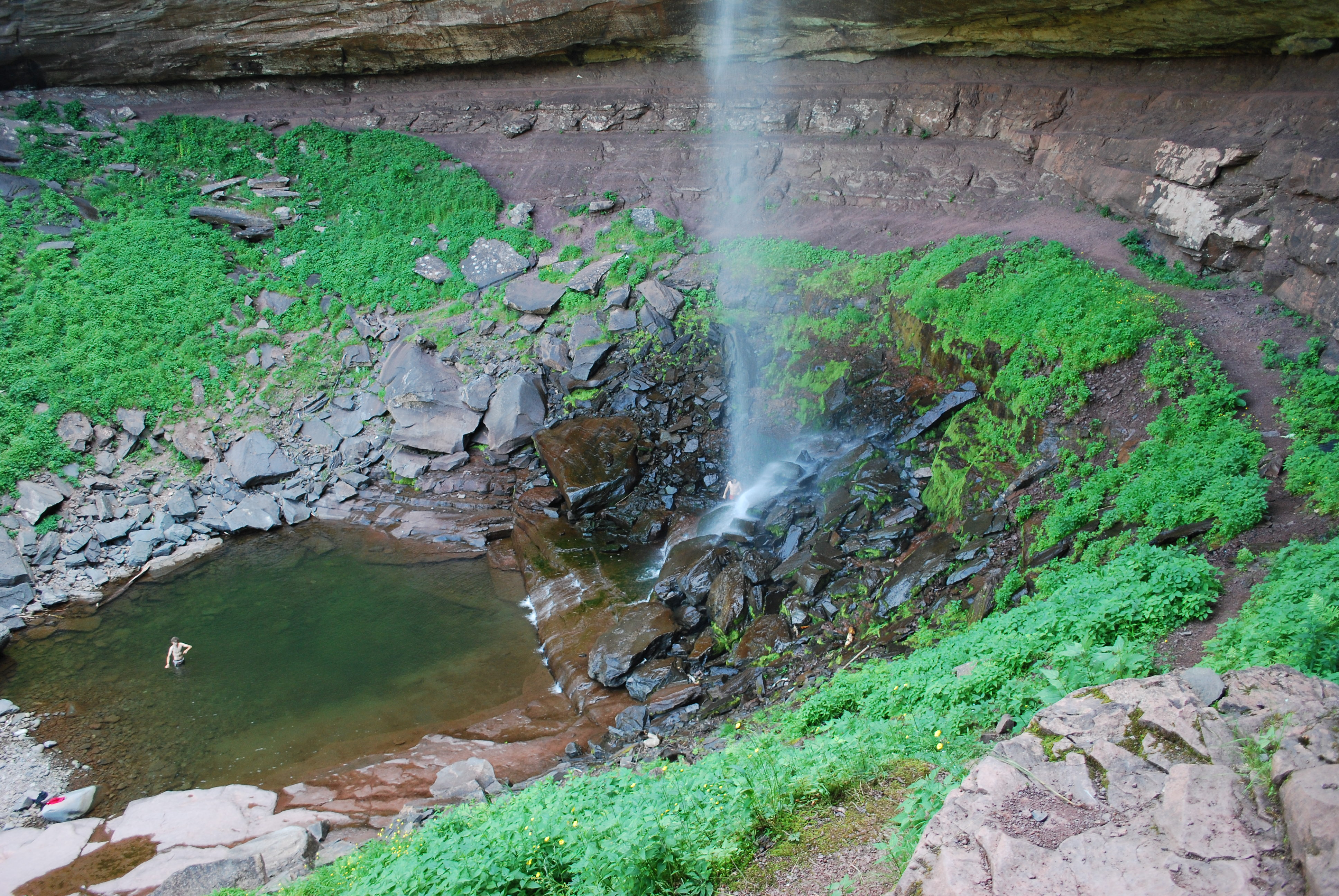 Hikers swim in the pool formed by the upper section of Kaaterskill Falls, NY